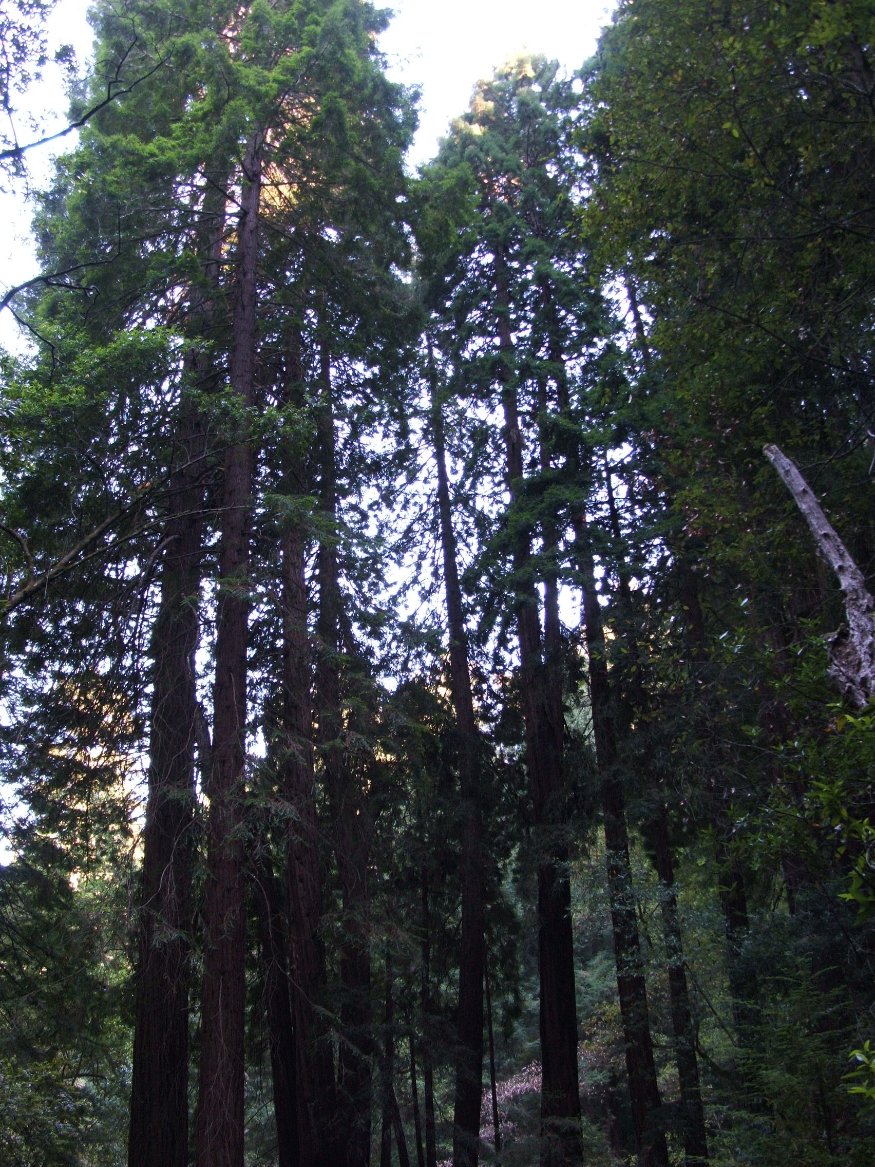 Coast Redwood (Sequoia sempervirens)